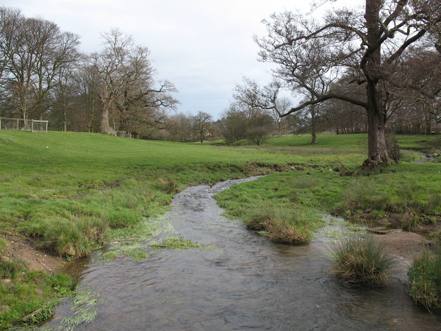 The beck at Firby The little beck at Firby runs through parkland with mature trees.